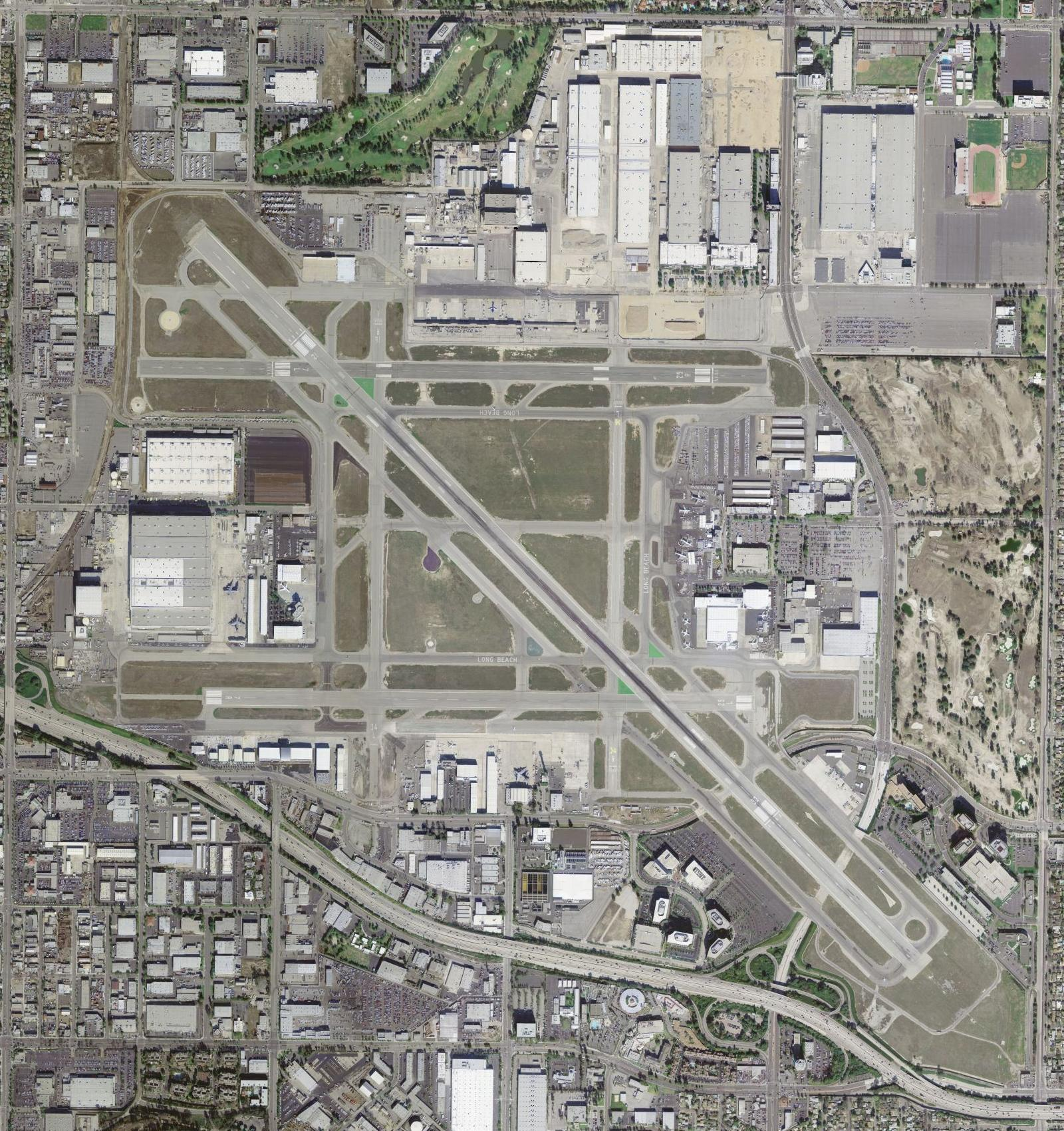 USGS digital orthophoto of Long Beach Airport in Long Beach, California, United States.